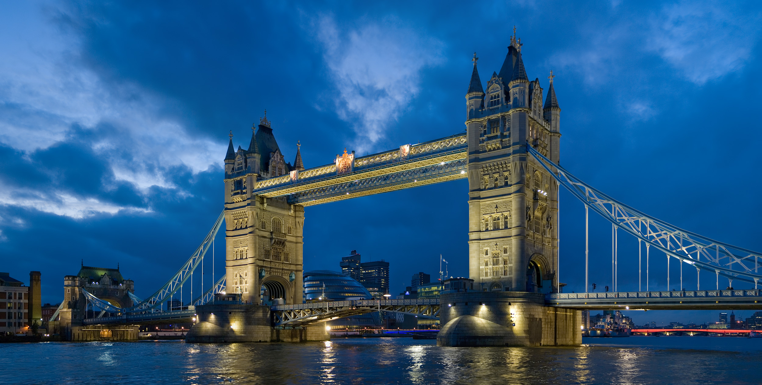 Tower Bridge as viewed from the North-East near St Katherine Dock. This is a four-segment panorama taken by myself with a Canon 5D and 24-105mm f/4L lens.